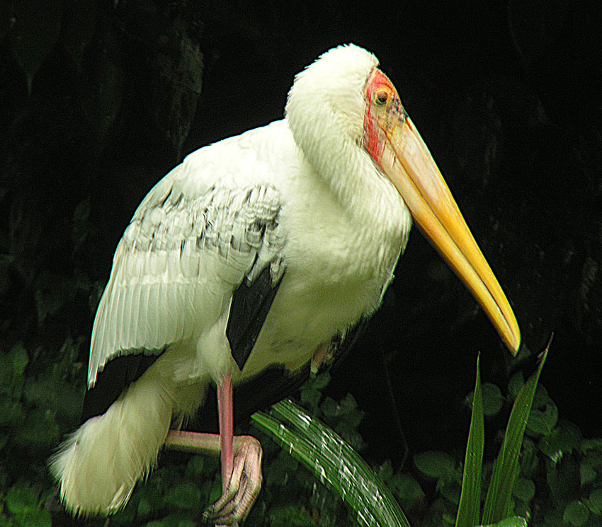 Found from Cambodia to Indonesia. A night shot in Borneo. In context at